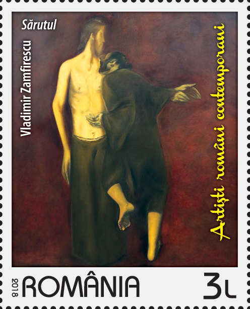 The Kiss (Sarutul) by Vladimir Zamfirescu